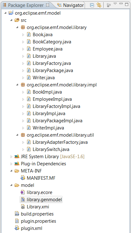 Screenshot of the code generated by the open source software EMF.